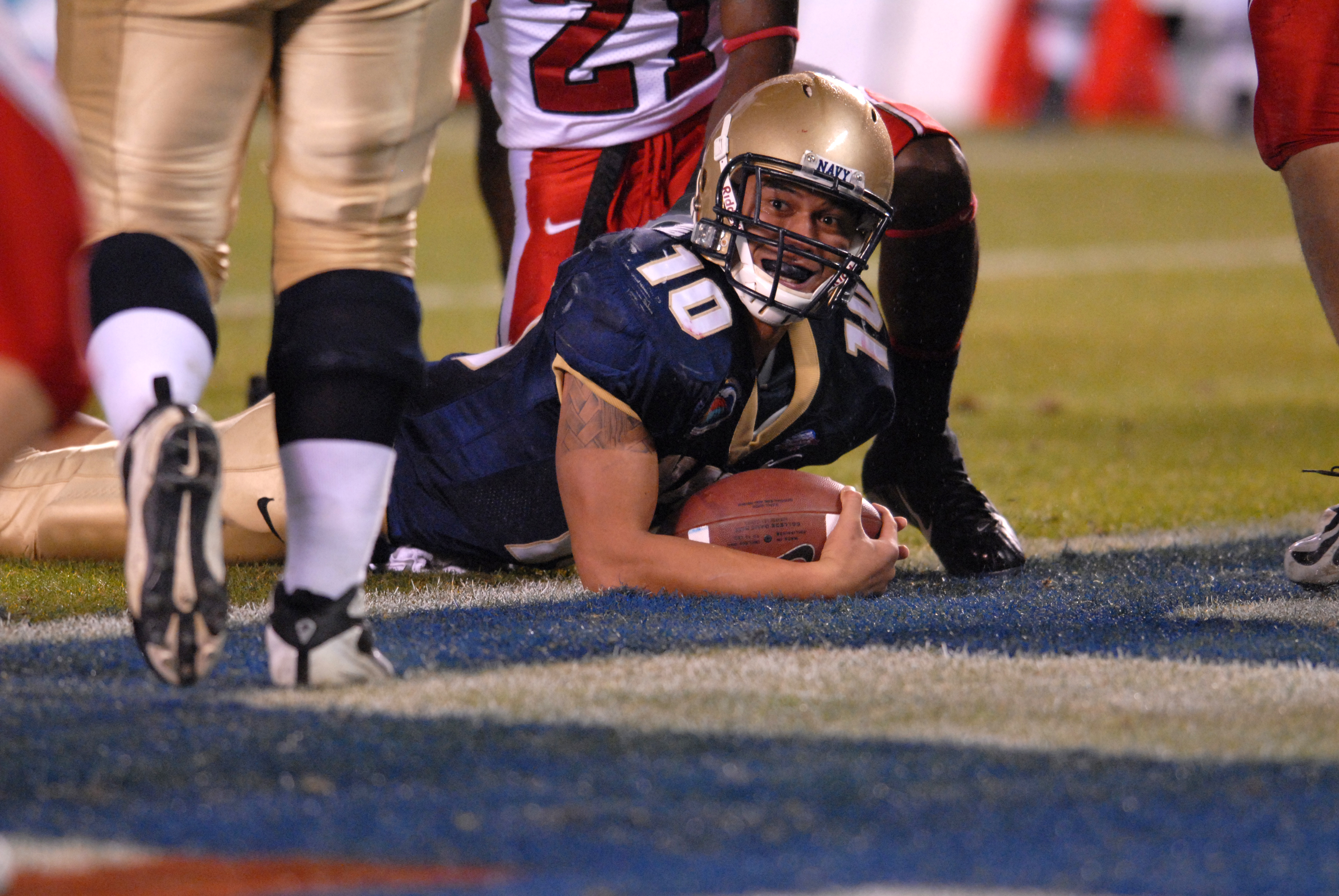 Navy quarterback Kaipo-Noa Kaheaku-Enhada has a big smile after scoring a two point conversion that brought the midshipmen to within three points of the Utah Utes in the closing minutes of the fourth quarter. The Midshipmen of the Naval Academy took on the Utes in the third annual Poinsettia Bowl. The two 8-4 teams battled until the closing seconds of the seasonís first bowl game. The Utes pulled out a 35-32 victory.